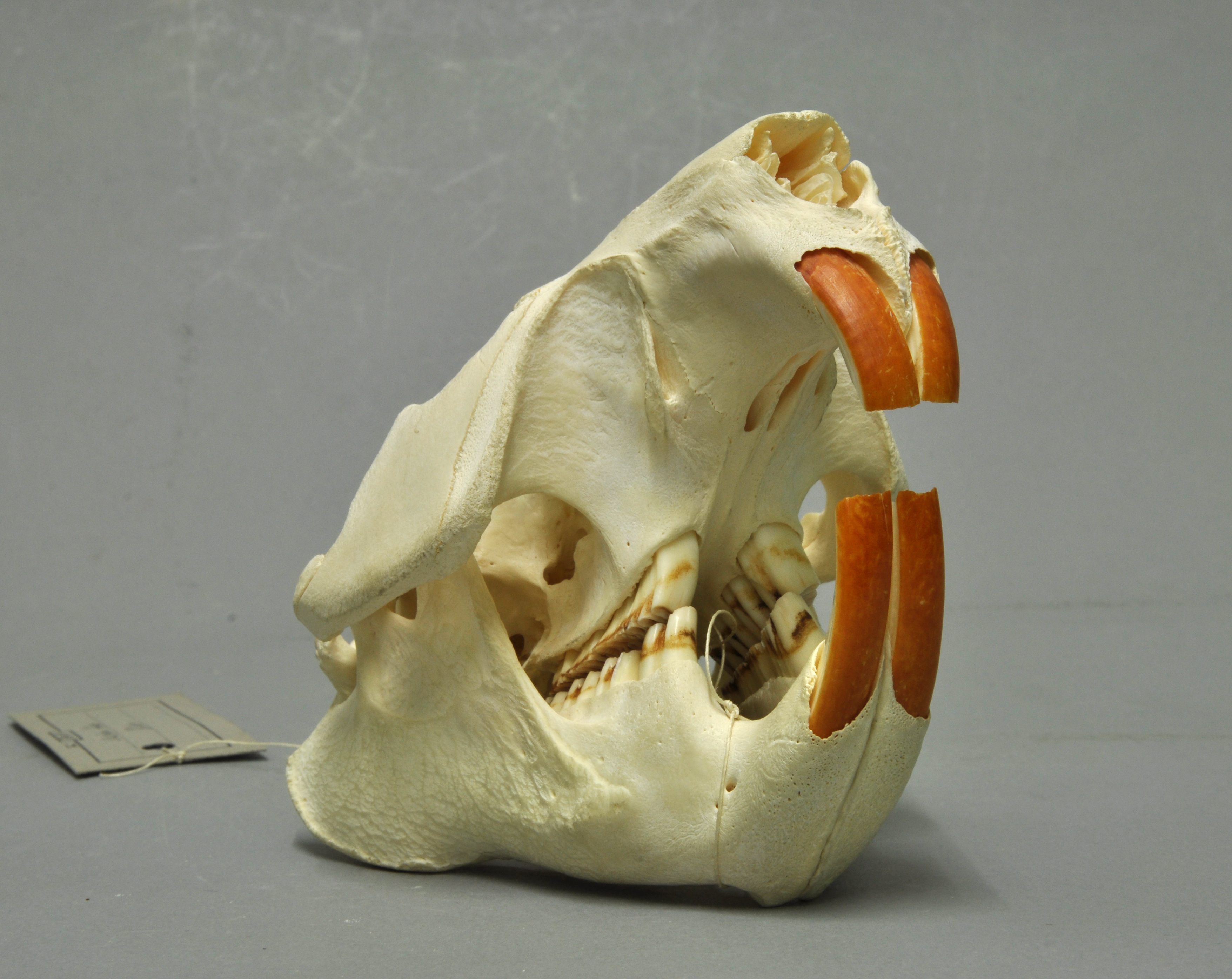 European beaver Castor fiber, skull, Coll. Museum Wiesbaden